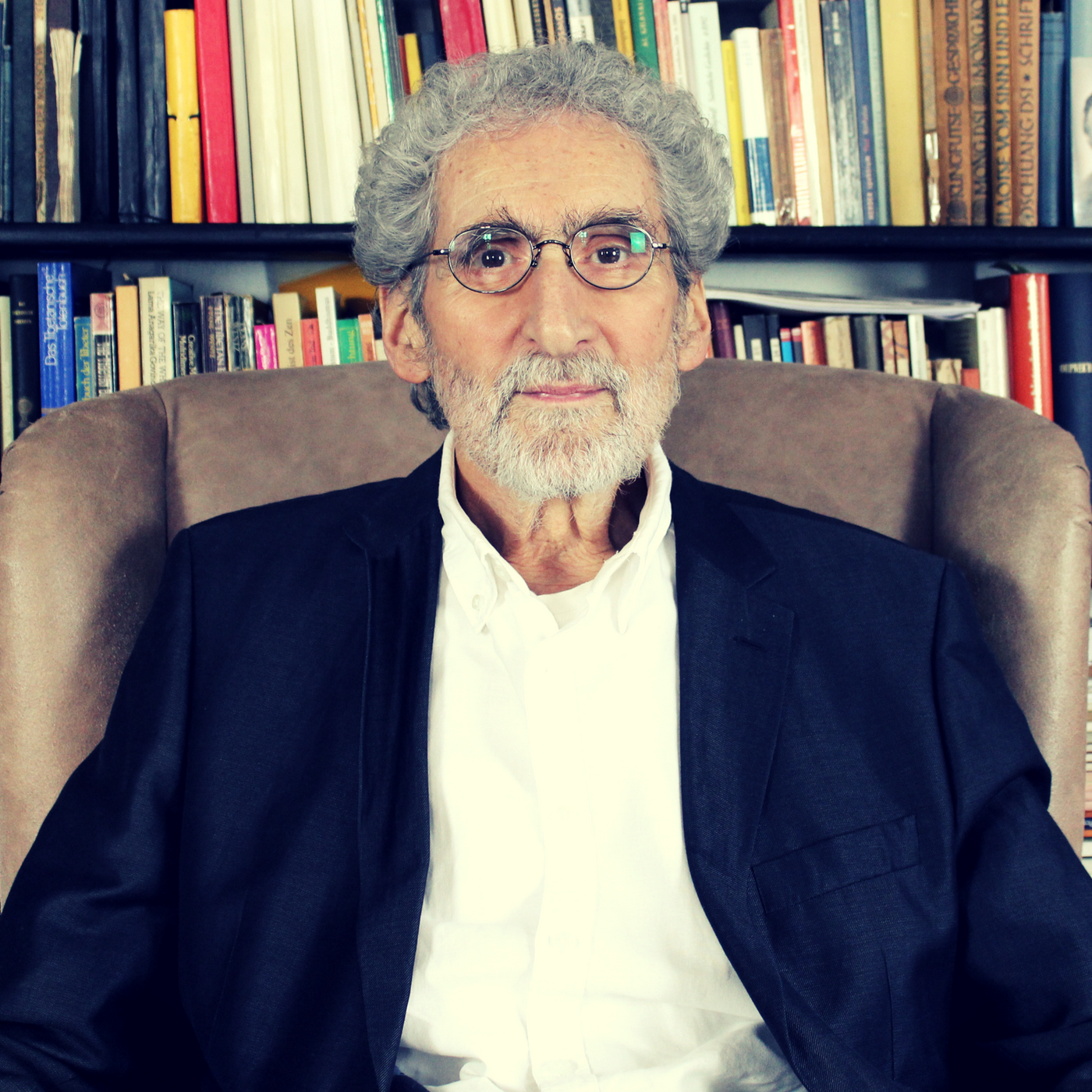 Frontal portrait of Berlin based German philosopher Jochen Kirchhoff, January 2018.